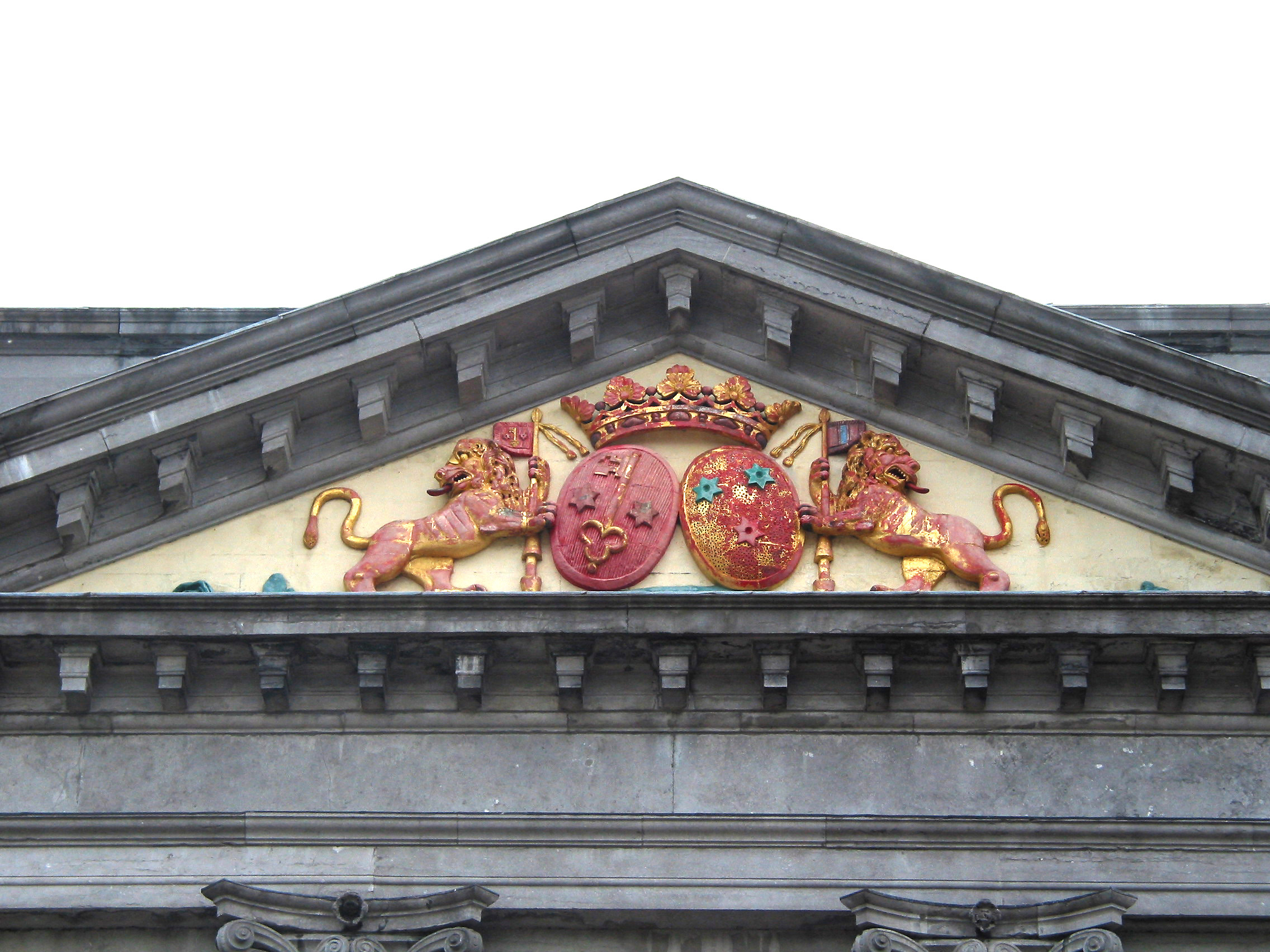 Seneffe (Belgium), pediment over the front of the castle decorated with the blason the de Pestre and Cogels families. Walon: Sinèfe (Bèljike), fronton dol divanture do tchètsê gârni avou l’blason dès familes de Pestre èt Cogels.